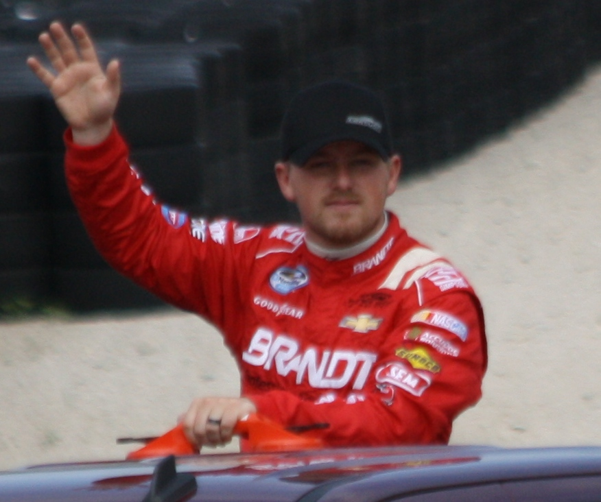 NASCAR driver Justin Allgaier at the 2013 Johnsonville Sausage 200 Nationwide race at Road America.